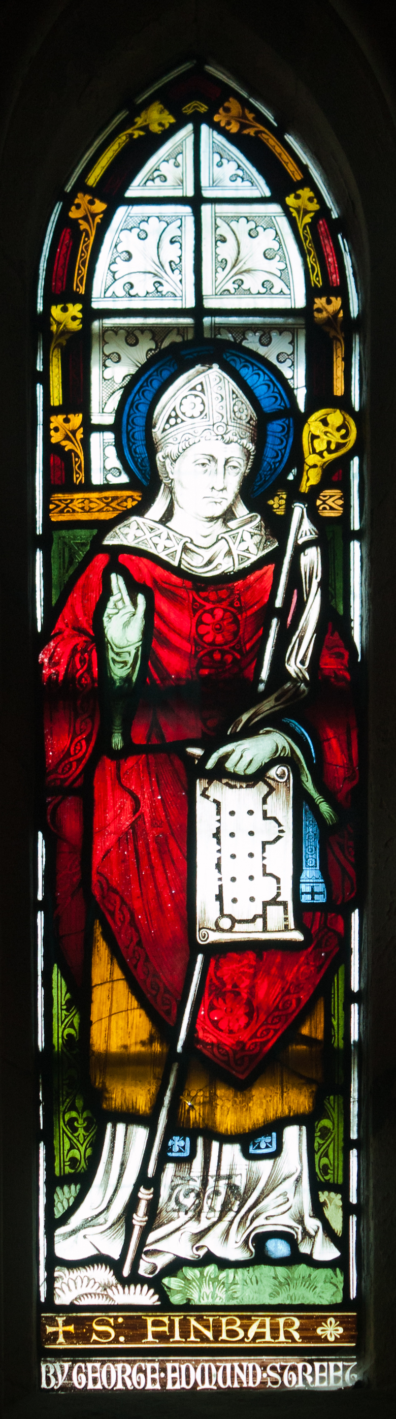 Sixth (from left) stained glass window in the north wall of the baptistery, depicting Saint Finbar. Presented by George Edmund Street (1824–1881) in memory of his wife, executed by Clayton & Bell, London.